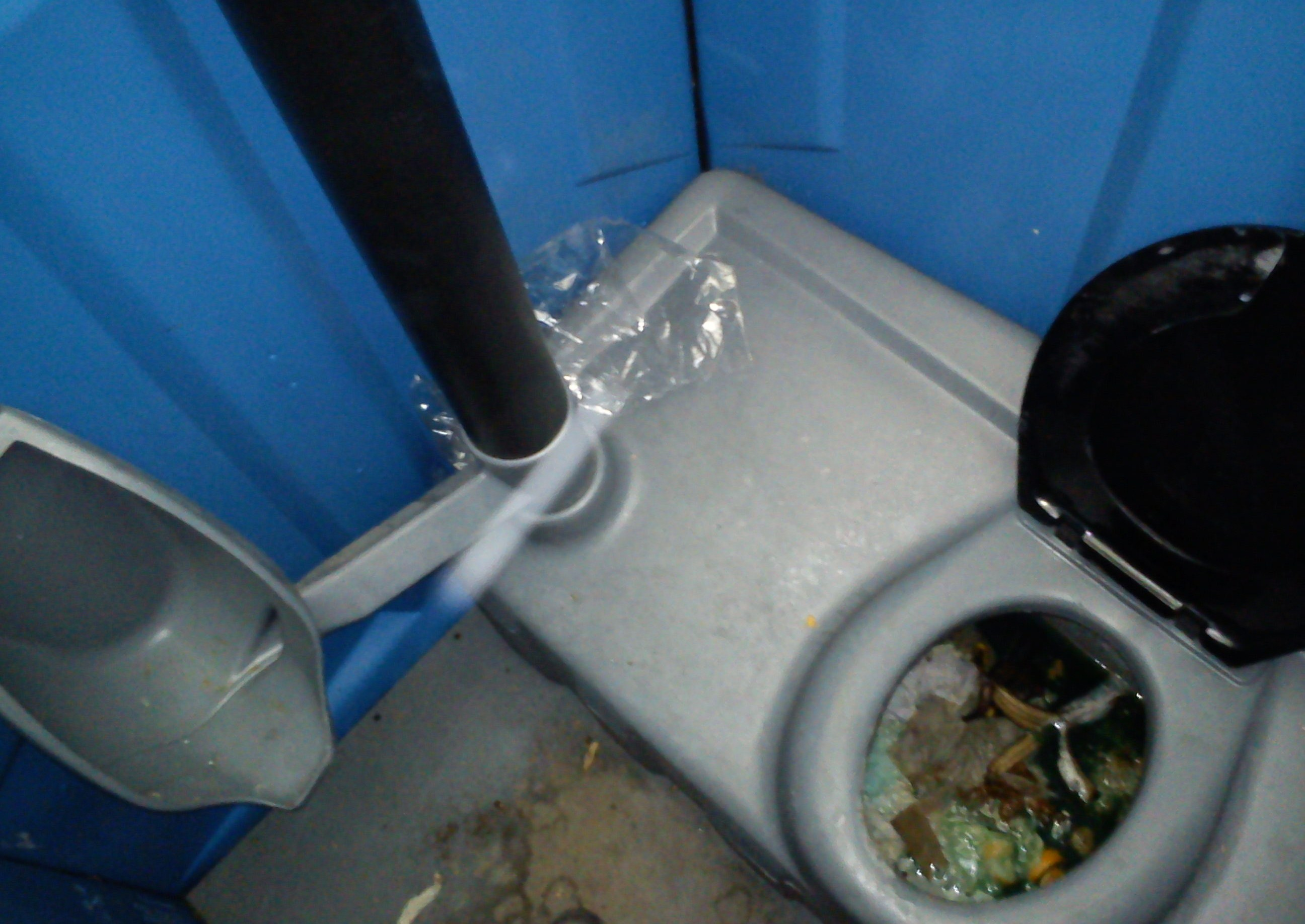 Mobile Toilet in Poland (Wagrowiec, Rail Station).